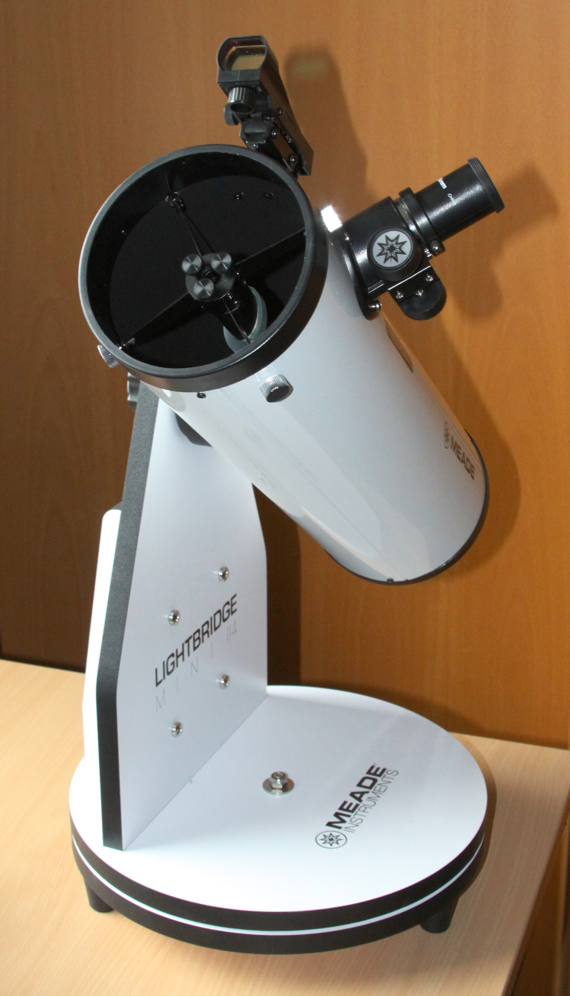 Meade LightBridge Mini 114 f/4 Dobsonian reflector telescope (with Bob's Knobs adjustment screws and included 26 mm 1.25" eyepiece)